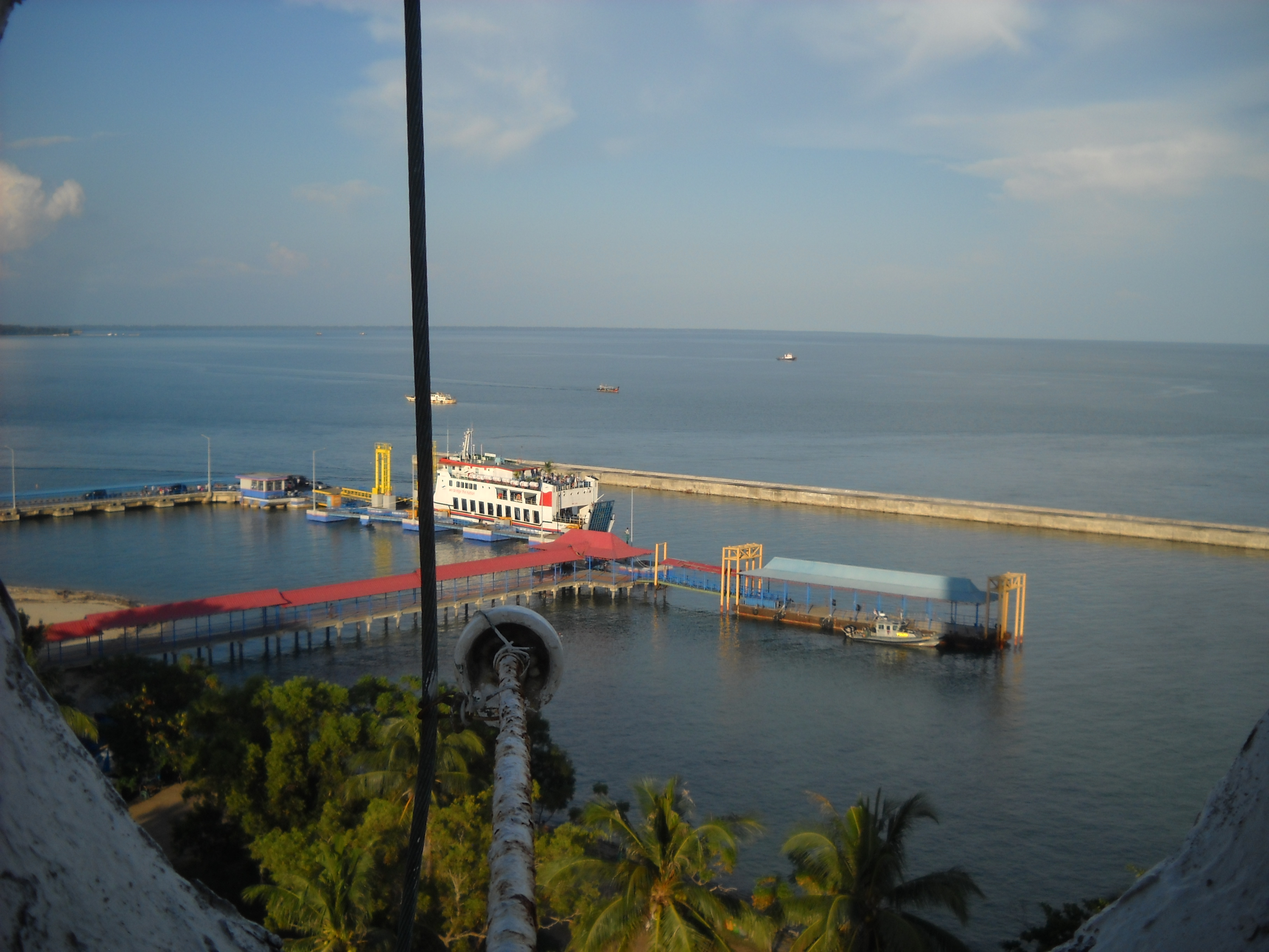 A view of Muntok Harbor from Tanjung Kalian Light House, Bangka